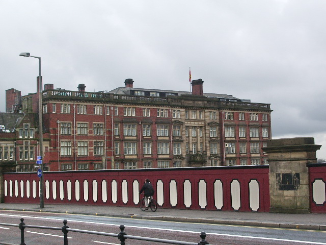 County Hall in Preston, Lancashire, England, the seat of Lancashire County Council.